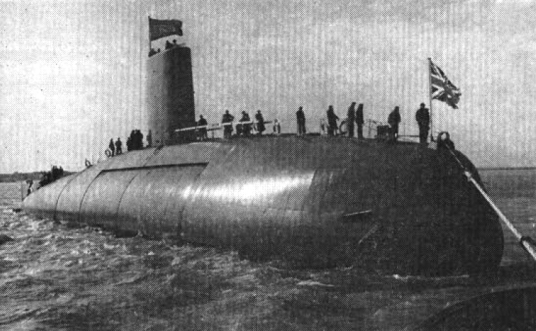 The first nuclear-powered Royal Navy submarine HMS Dreadnought (S101) after launching, 21 October 1960.